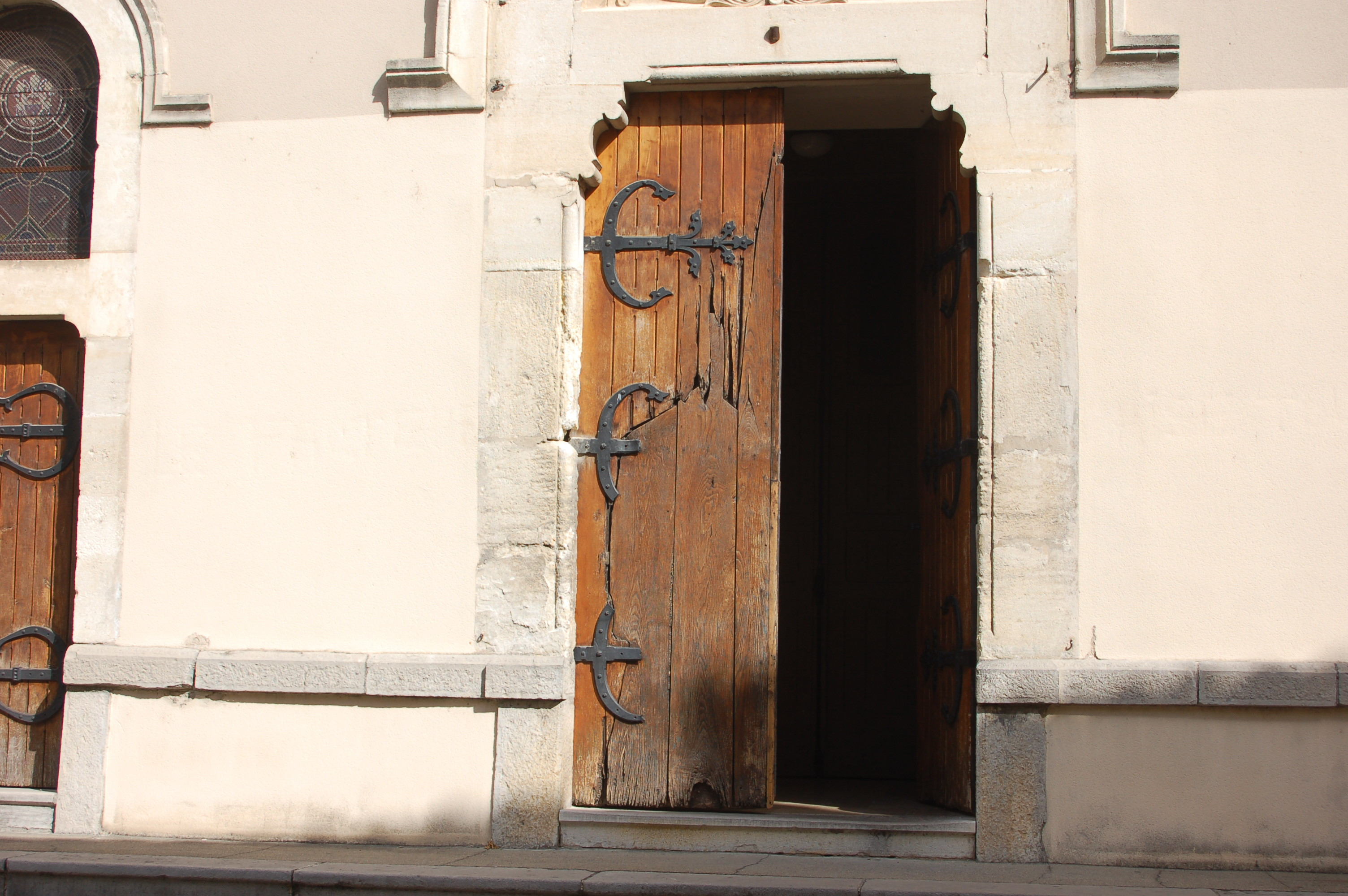 The doors of the church of Saint Mary Our Lady, Sumène, damaged during the inventory of 1905.